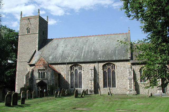 St Margaret's parish church, Lyng, Norfolk, seen from the south